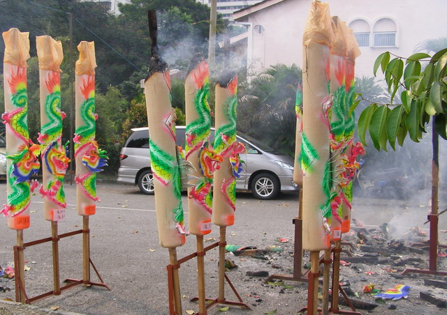 The huge Dragon Joss Sticks - JossSticks003.jpg